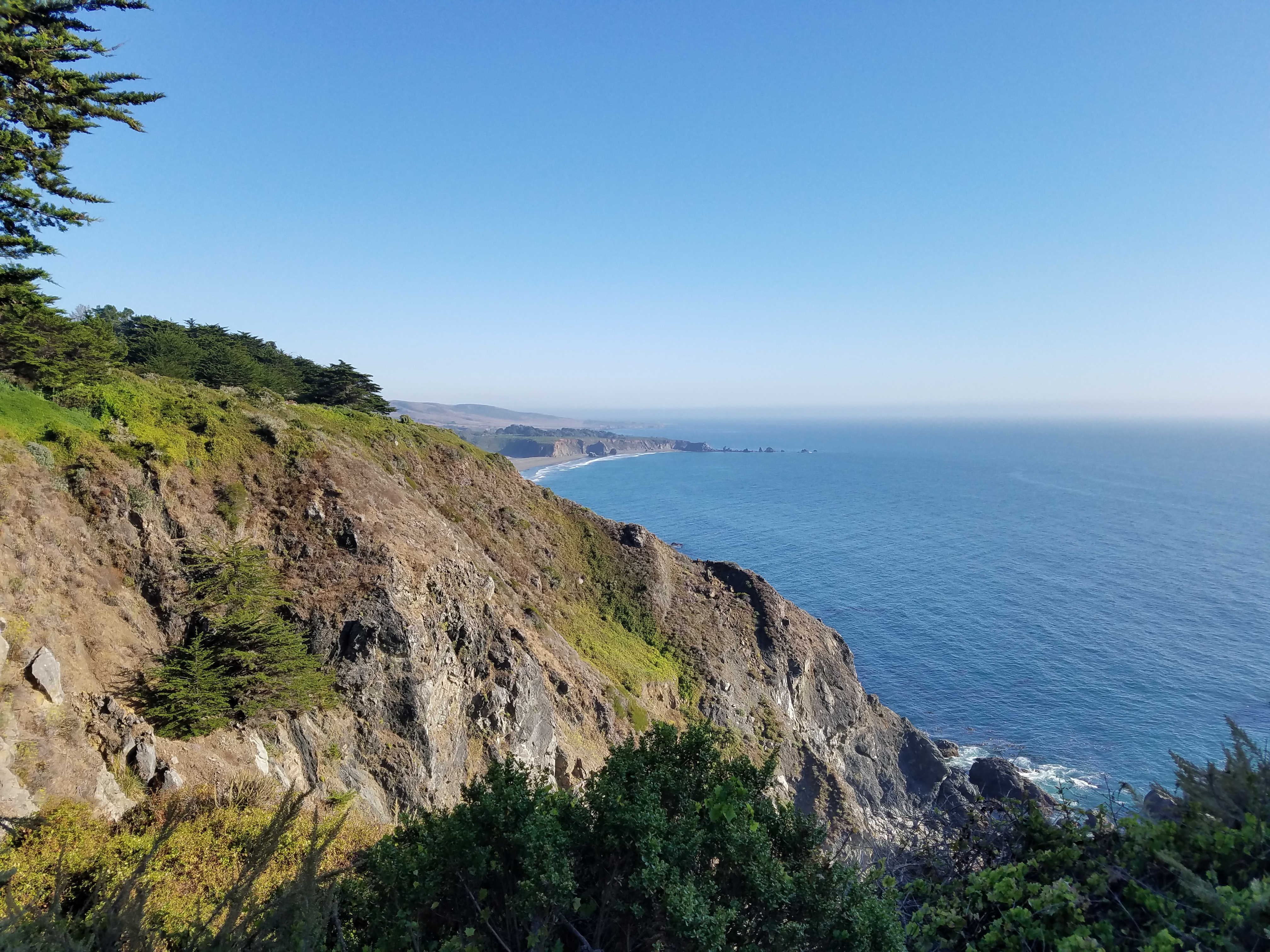 The view south along the Big Sur coastline from the grounds of Ragged Point Inn in California. The actual point Ragged Point is the steep but flat-topped outcropping in the distance at the southern end of the C-shaped bay, with several rocks off the end of the point to the right.